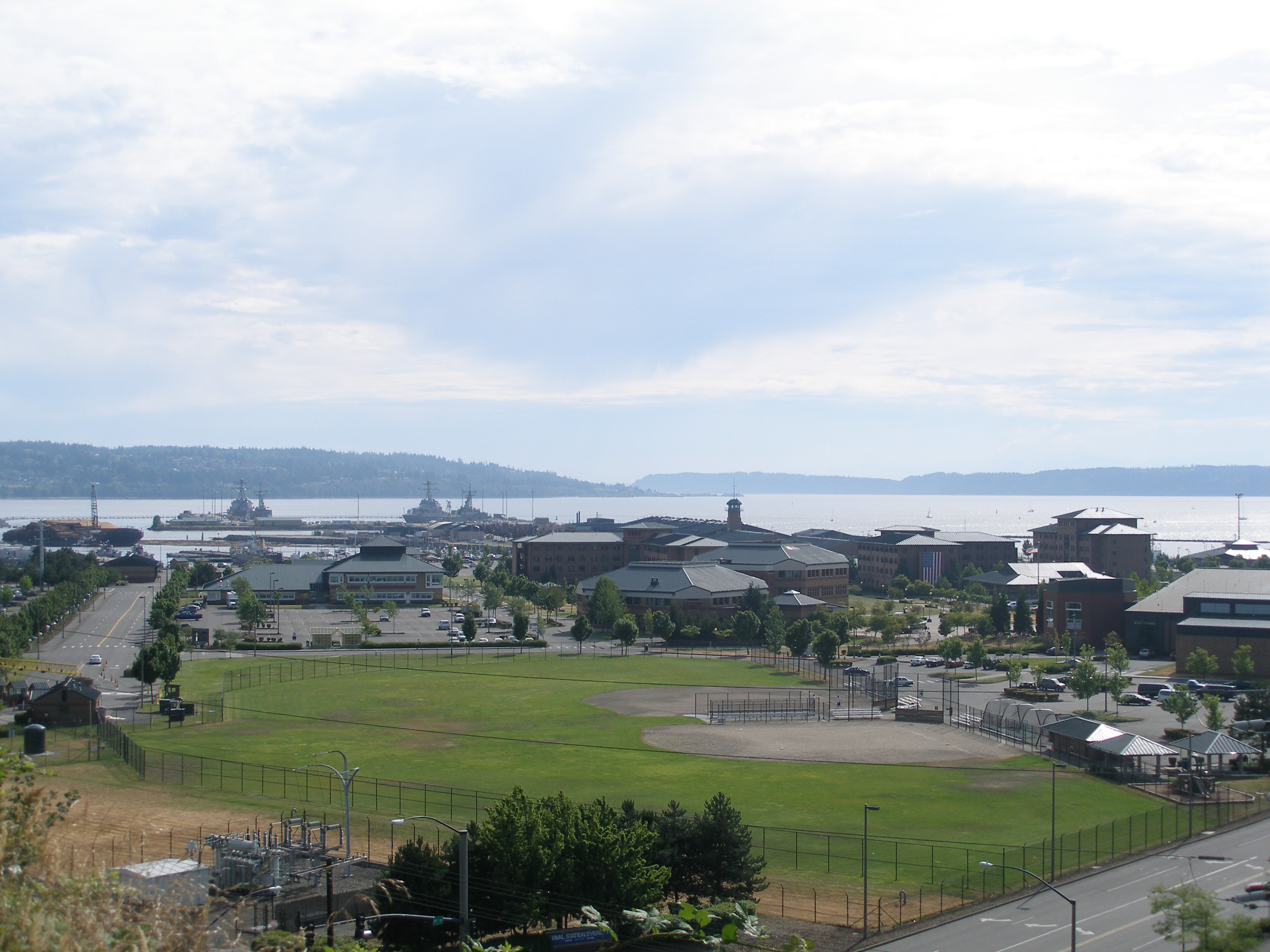 Naval Station Everett as seen from Grand Ave. Park, Everett, WA.